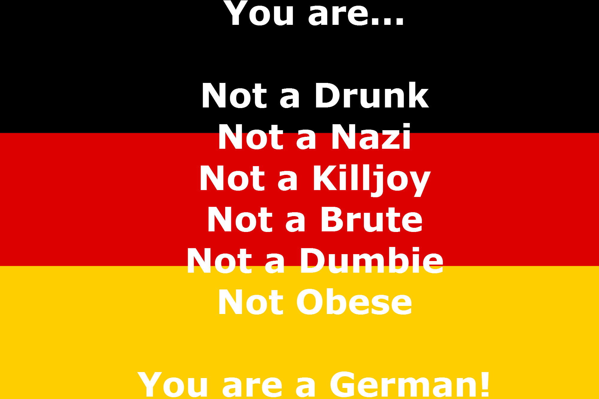 Anti-Racist German Image